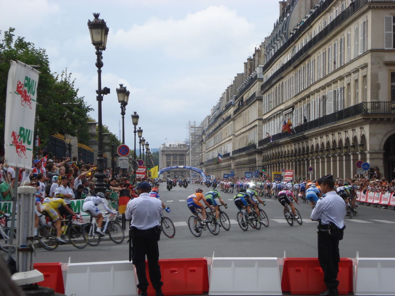 The Tour de France peloton on the Rue de Rivoli - 2007